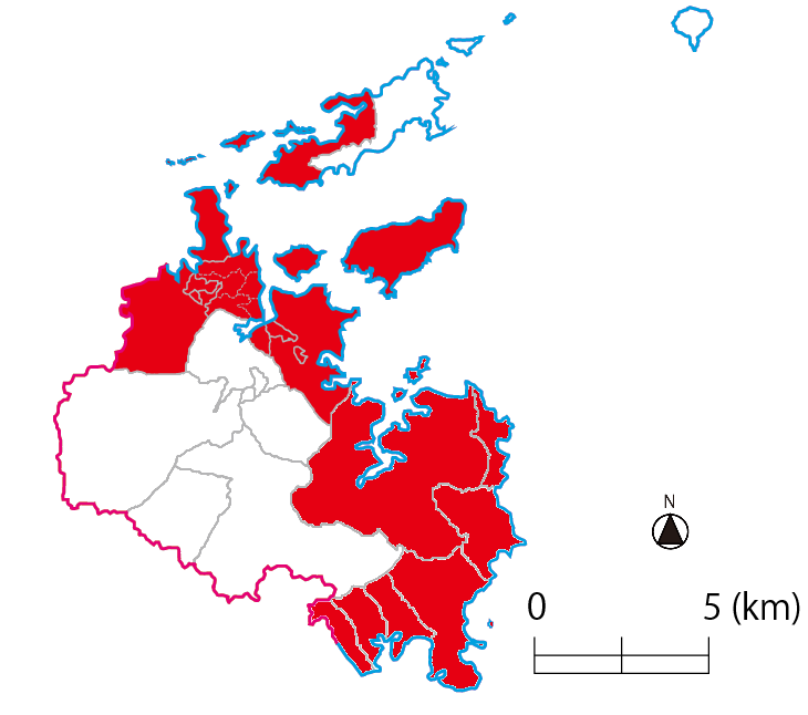 This map indicates the Toba-higashi junior high school district.